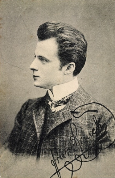 Postcard portrait of German actor and screenwriter Franz Rauch (1878–1960).